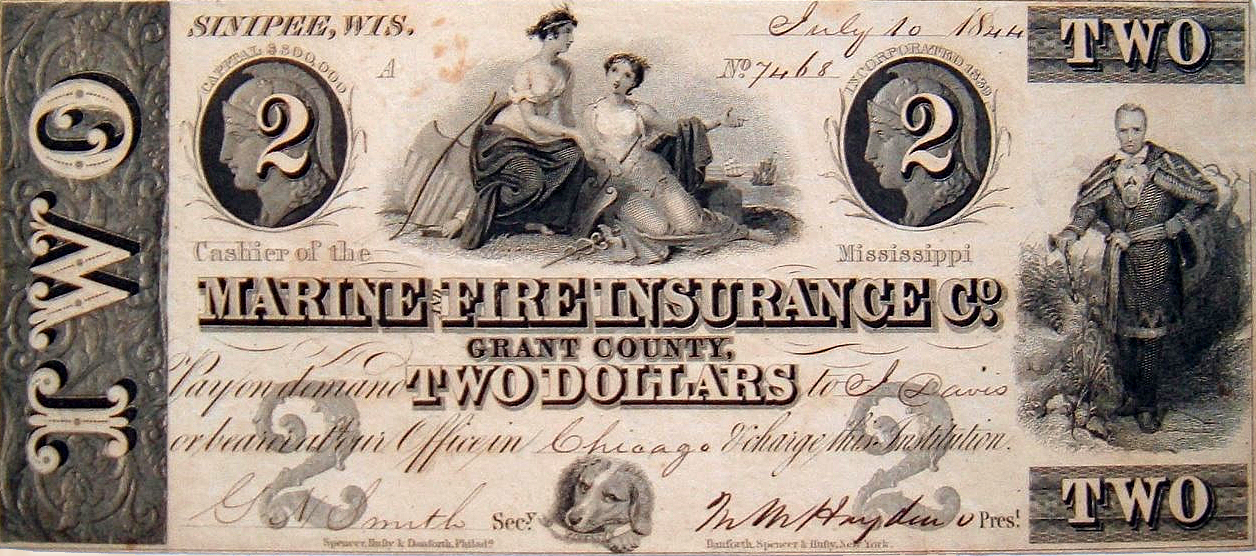 Banknote issued by a private company. The value of this note is maintained by a payment promise. See also free banking. Text: "Cashier of the Mississippi Marine Fire Insurance Company pays on demand Two Dollars to [?] or bearer at our Office in Chicago charge this institution."